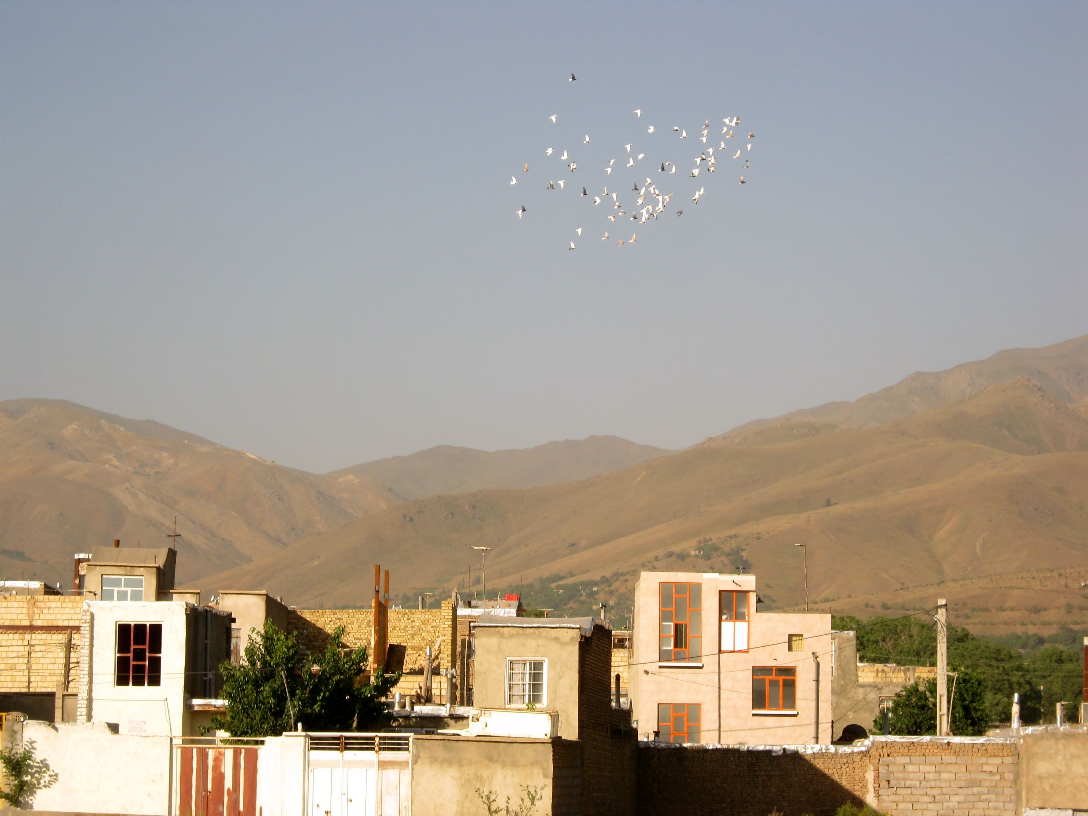 Pigeon racing in Iran